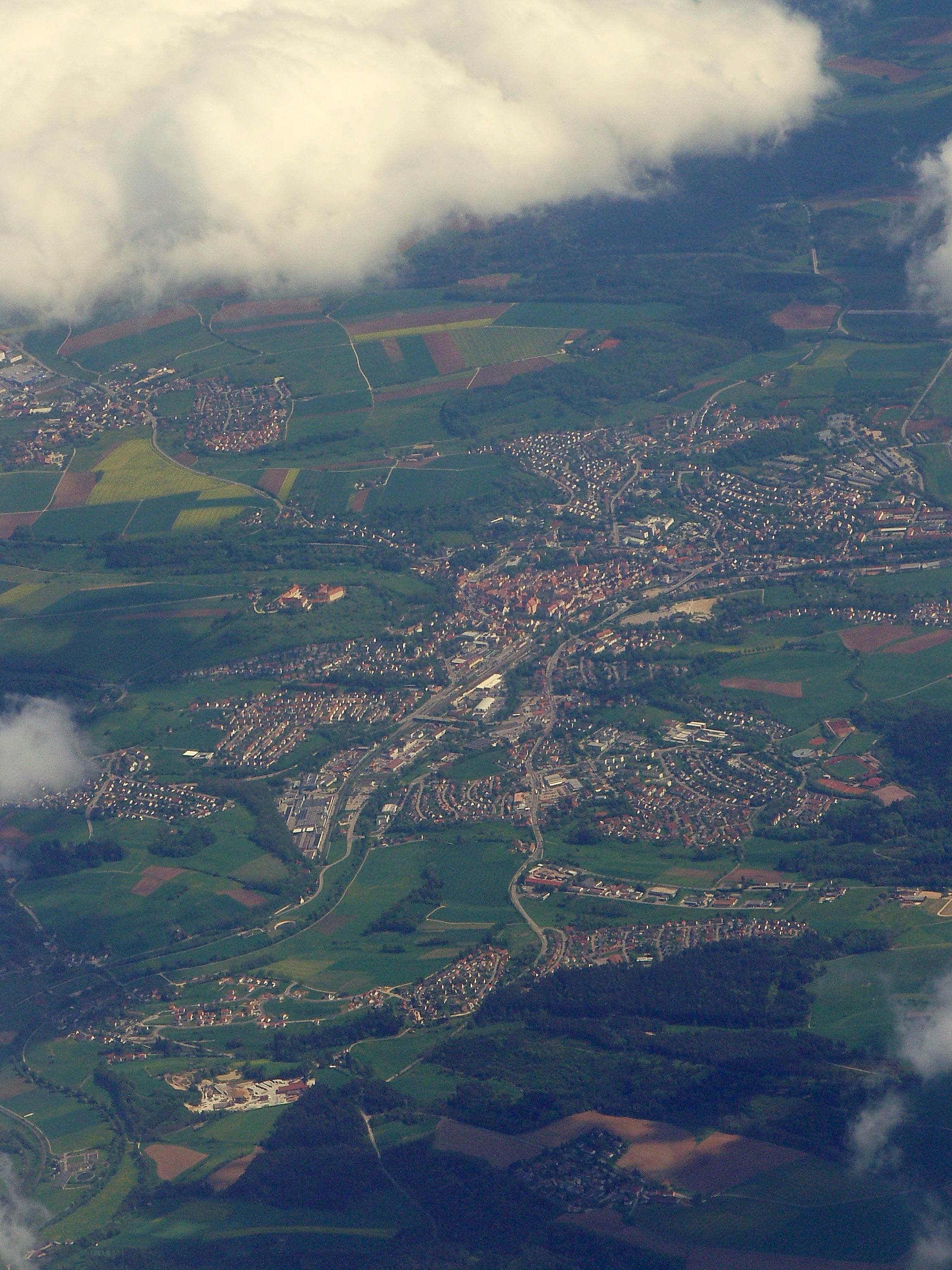 Ellwangen from airplane